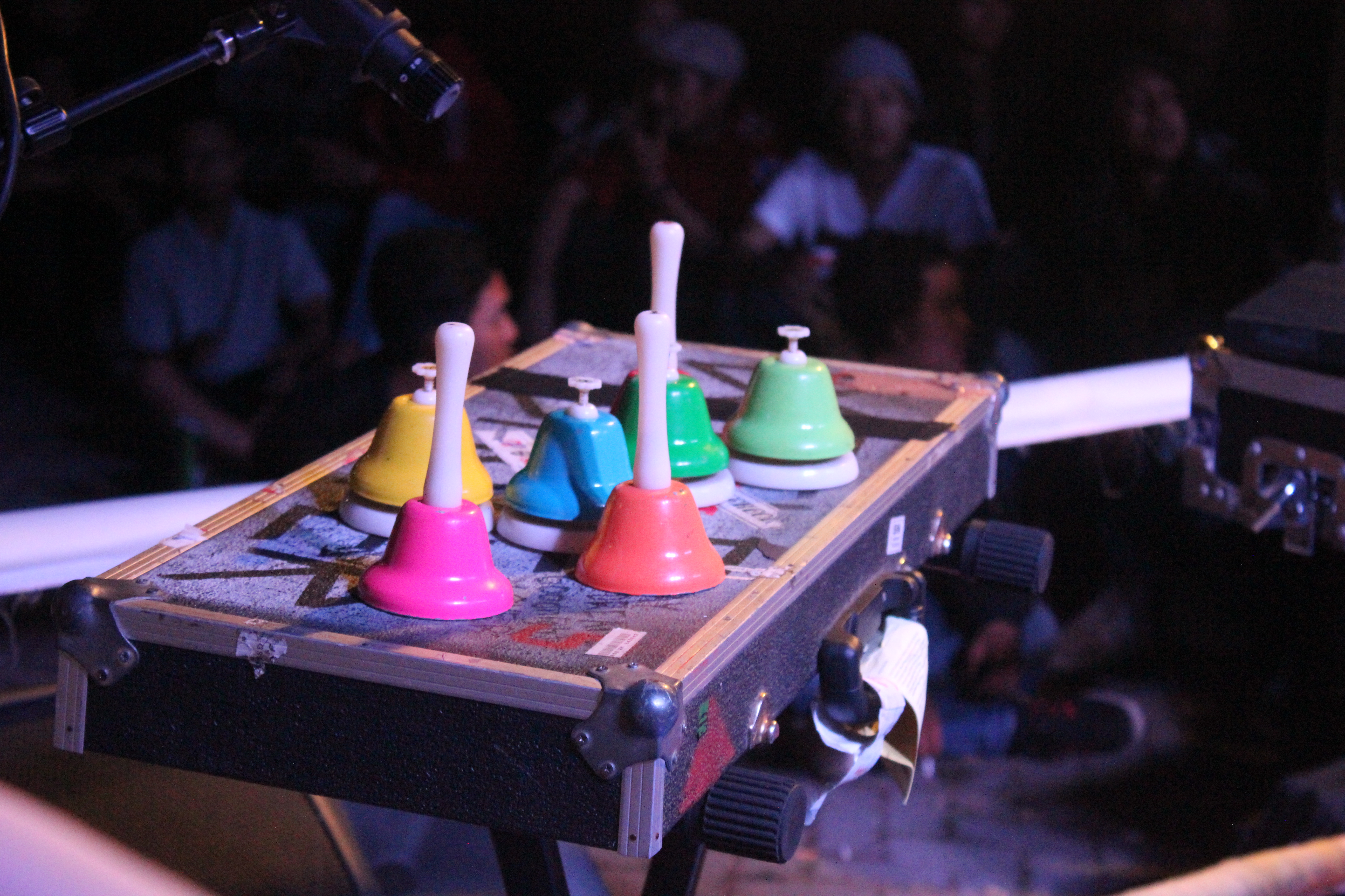 Hand bell seen on Bottlesmoker's performance